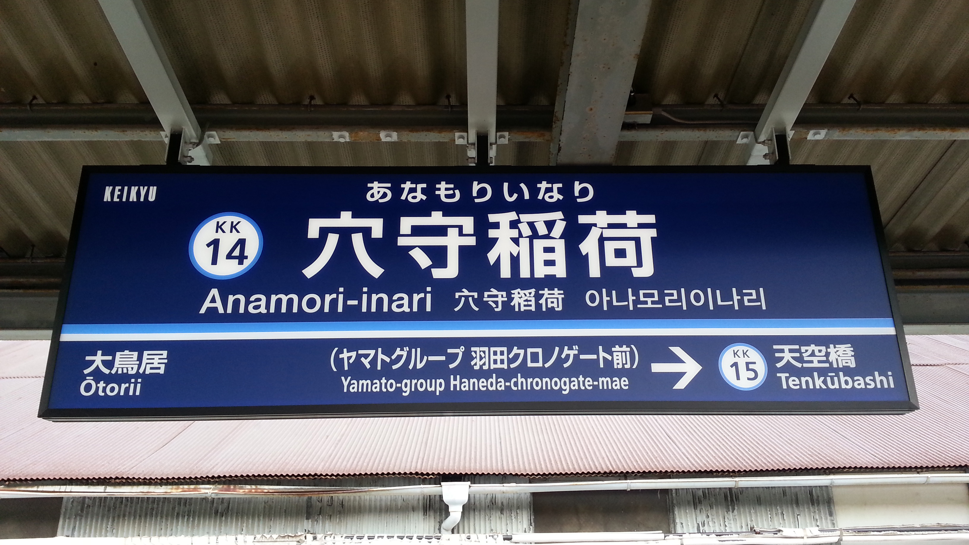 A sign of Anamori-inari Station